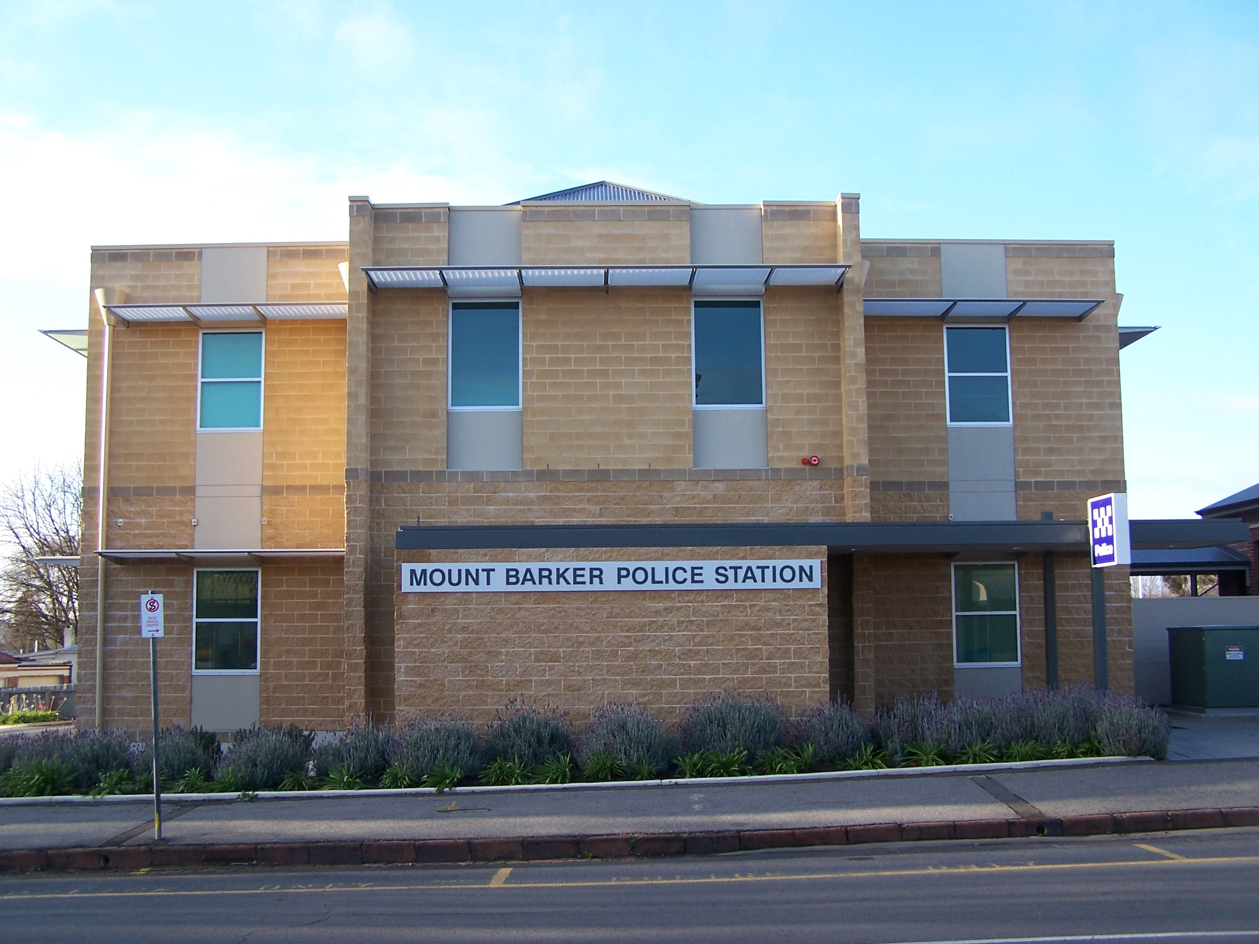 See above